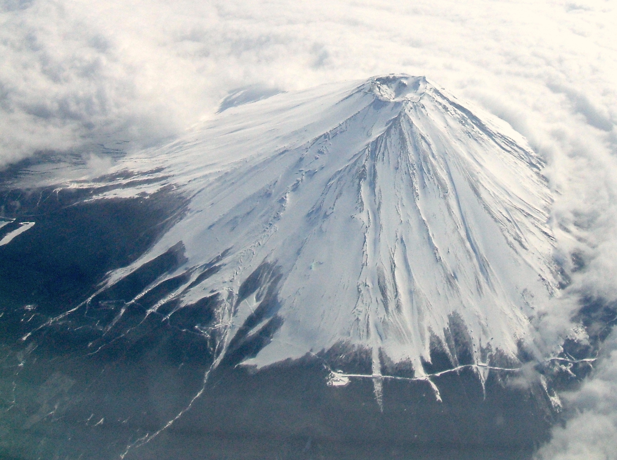 民間航空機から撮影した冬の富士山（2007/2/24 PM1:30）高度28000フィー Photograph taken in winter from a private aircraft at an altitude of 28,000 feet at 1:30 p.m. on the 24th of February 2007.